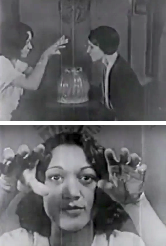 These are two screenshots from the 1930s stag film The Hypnotist (as referenced in Stag film), selected and composed by me, to be used as an illustration for Erotic Hypnosis.